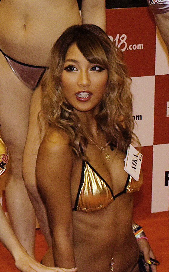 Aika is a Japanese AV idol.